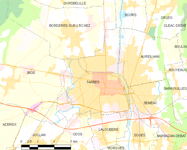 Map of French municipality